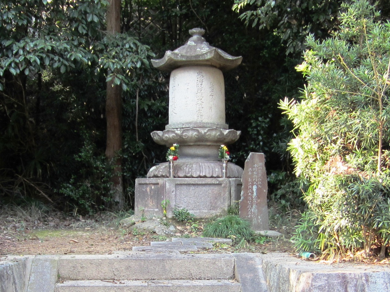 Mizuno Tadamasa's grave at Kenkon-in in Higashiura, Aichi.